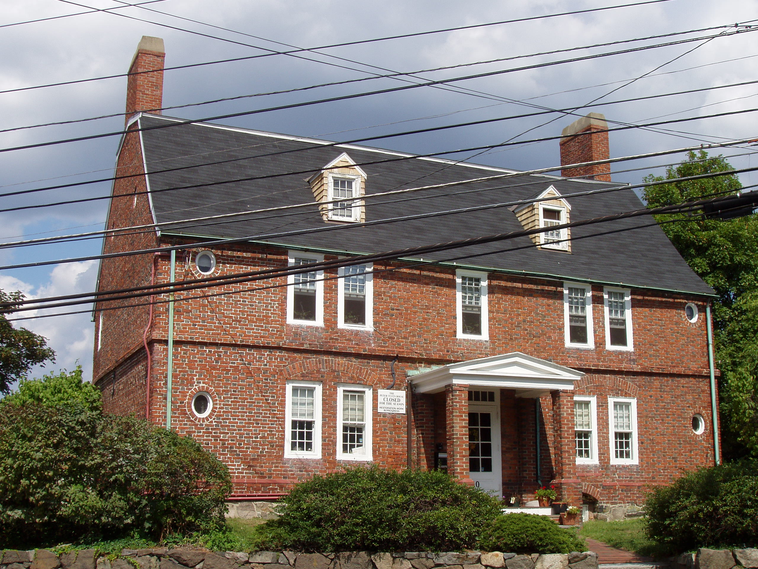 Peter Tufts House, Medford, Massachusetts. Photograph taken by me, September 2005. Possibly the oldest surviving gambrel roof in America built c. 1678